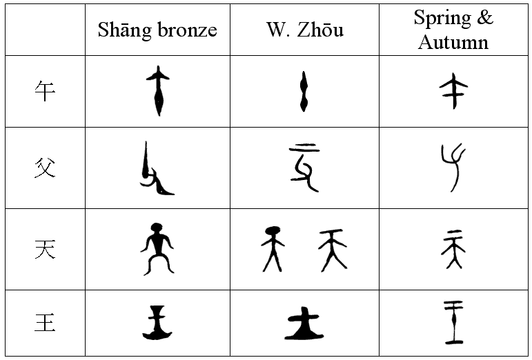 Chart showing linearization of Chinese character forms during the first two thirds of the Zhou dynasty. Graphs were typed using publicly available fonts from the 漢字構形資料庫 of the Academia Sinica's Chinese Document Processing Laboratory (CDPL) under the Institute of Information Science, and dated via the Bronze Inscriptions Database of the Bronze Inscription Research Team (BIRT) under the Institute of History and Philology of the Academia Sinica.